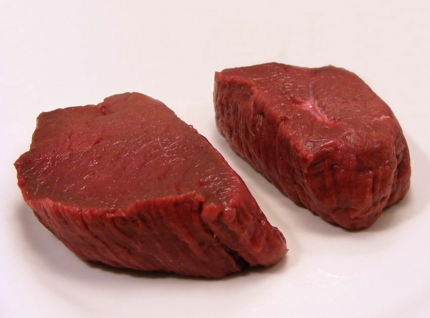 Venison Steaks 29,80 p/kg @ Baars Poelier, Markt Rotterdam. Venison can be a little bit tough, but these turn out brilliantly tender and flavoursome.